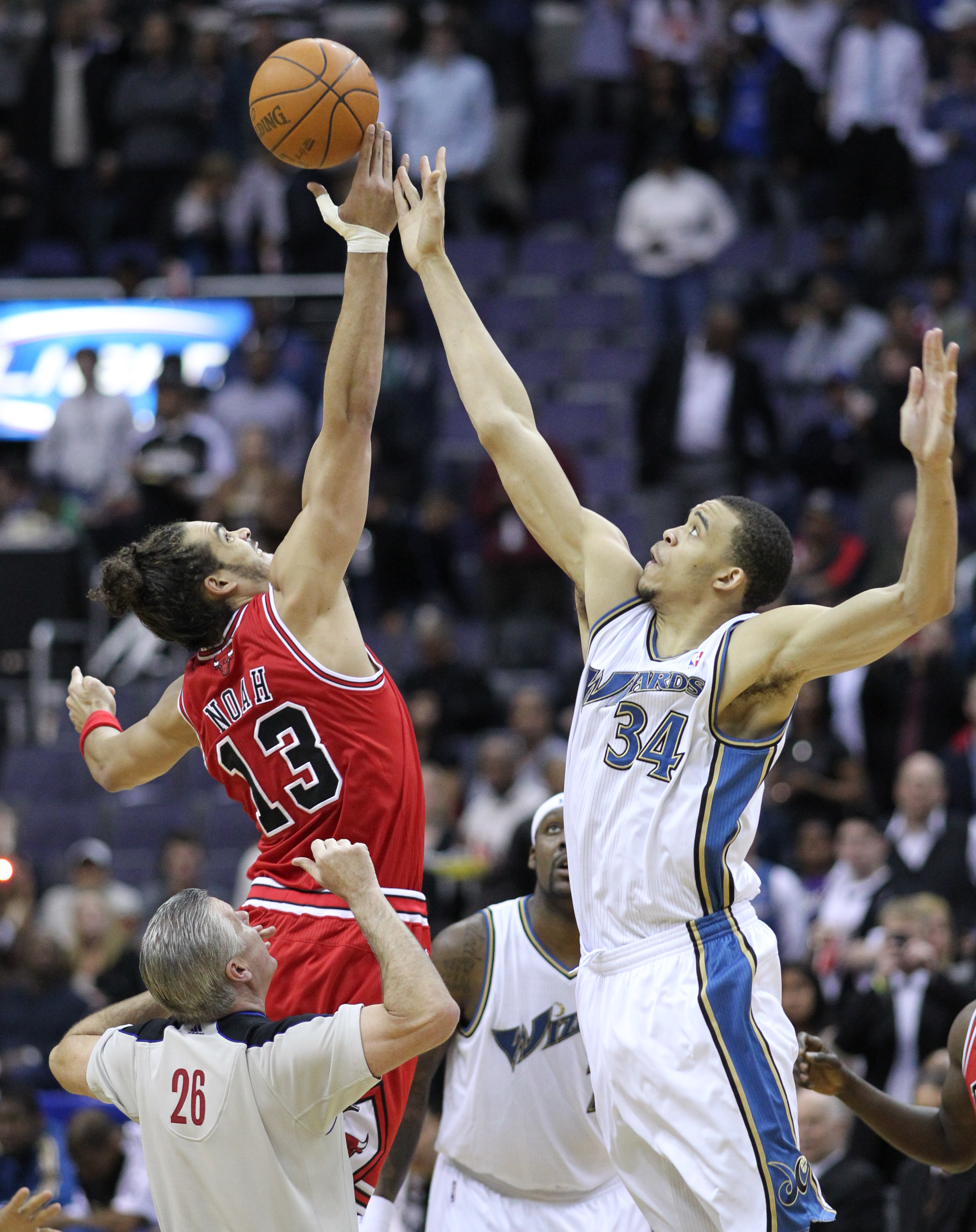 Wizards v/s Bulls 02/28/11